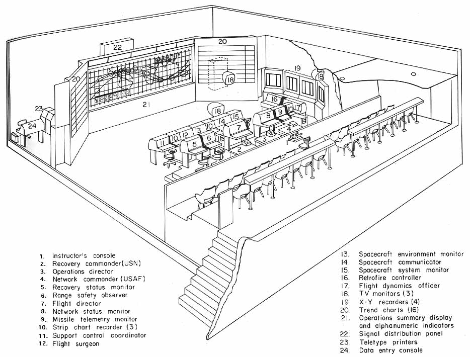 Mercury Control Center Layout from MERCURY PROJECT SUMMARY (NASA SP-45) 1-Instructor’s console 2-Recovery commander (Navy) 3-Operations director 4-Network commander (Air Force) 5-Recovery status monitor 6-Range safety observer 7-Flight director 8-Network status monitor 9-Missile telemetry monitor 10-Strip chart recorder 11-Support control coordinator 12-Flight surgeon 13-Spacecraft environment monitor 14-Spacecraft communicator 15-Spacecraft system monitor 16-Retrofire controller 17-Flight dynamics officer 18-TV monitors 19-X-Y recorders 20-Trend charts 21-Operations summary display and alphanumeric indicators 22-Signal distribution panel 23-Teletype printers 24-Data entry console